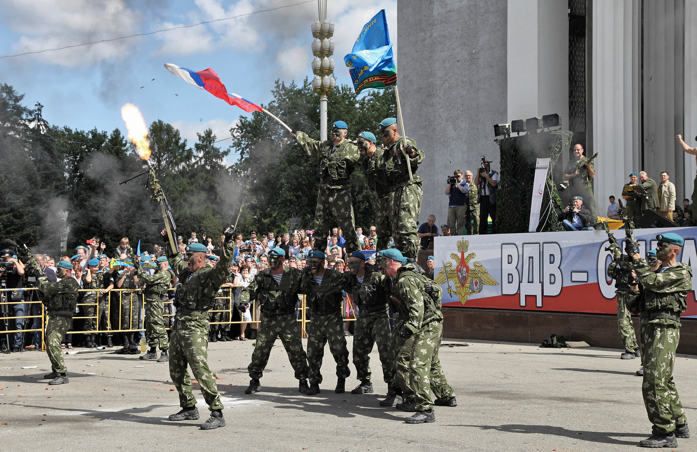 Airborne Troops Day 2013